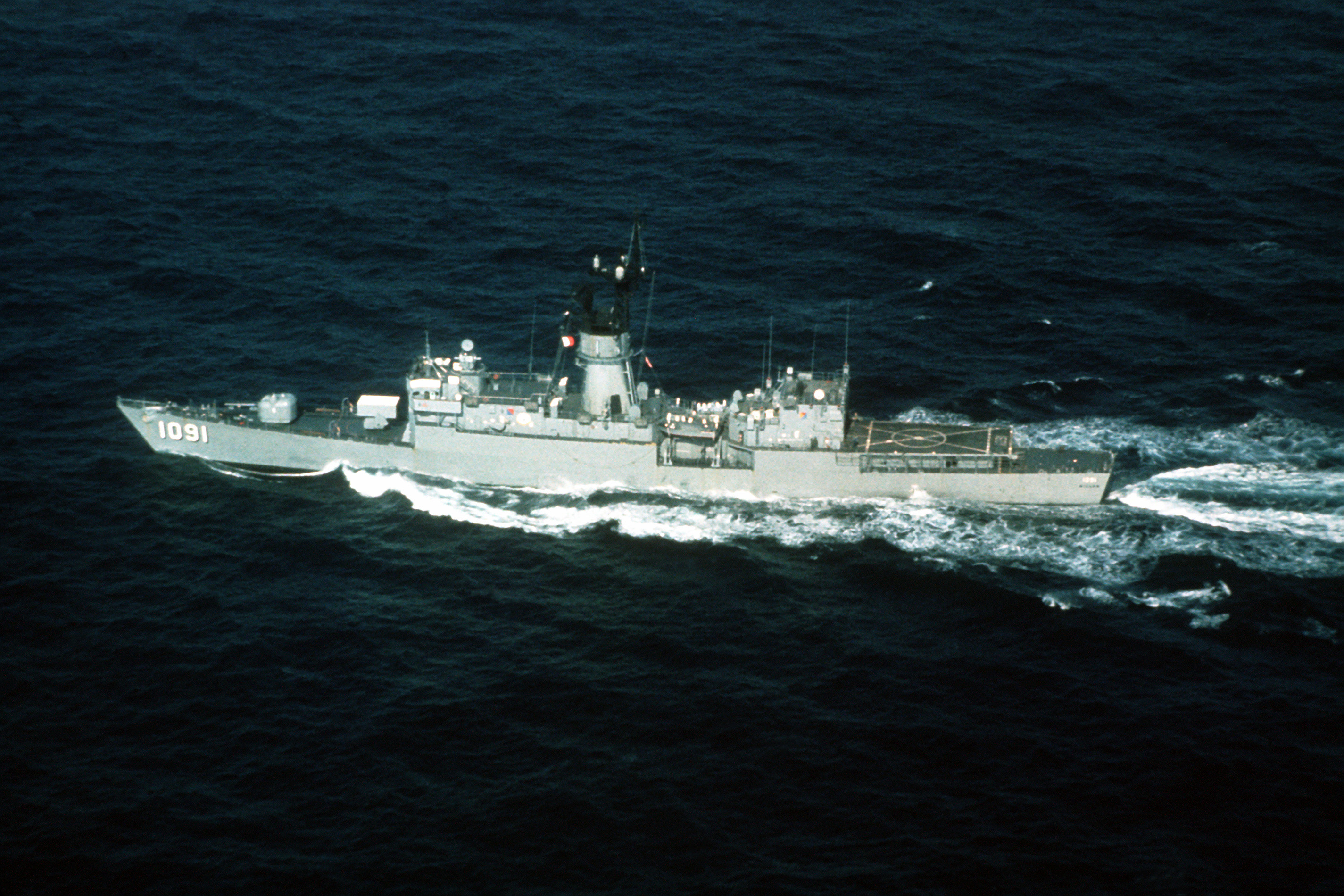 A port beam view of the frigate USS MILLER (FF-1091) underway.